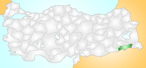 Shows the location of the Şırnak province in Turkey